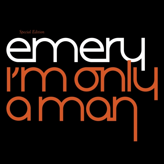 I'm Only a Man